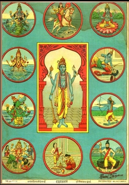 from baroda art gallery museum video screen shots